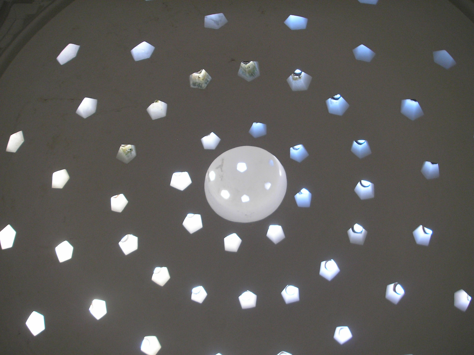 The turkish bath (hamam) constructed by Haseki Hürrem Sultan, known in the West as Roxelana or Roxelane. Located in Istanbul close to the Hagia Sophia.